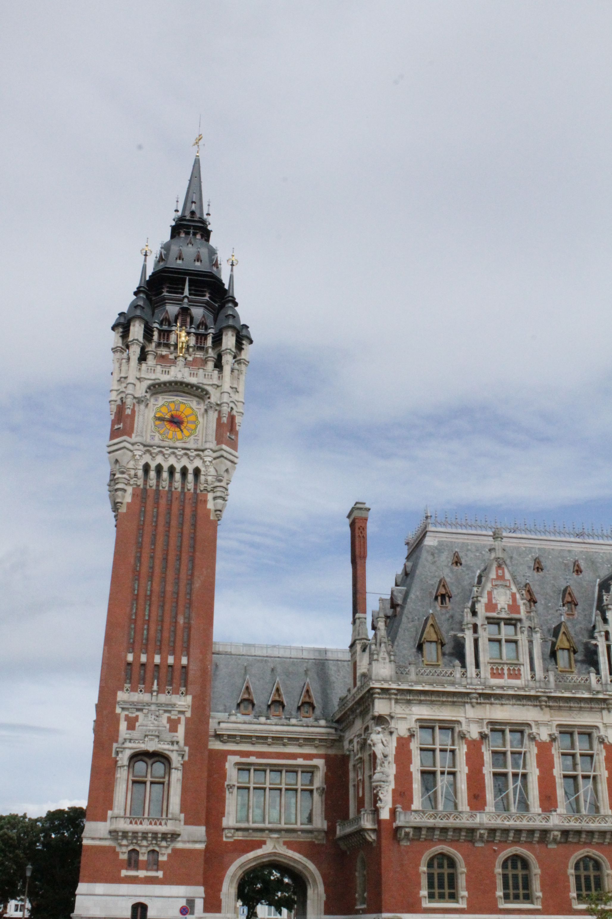 Calais Town Hall tower